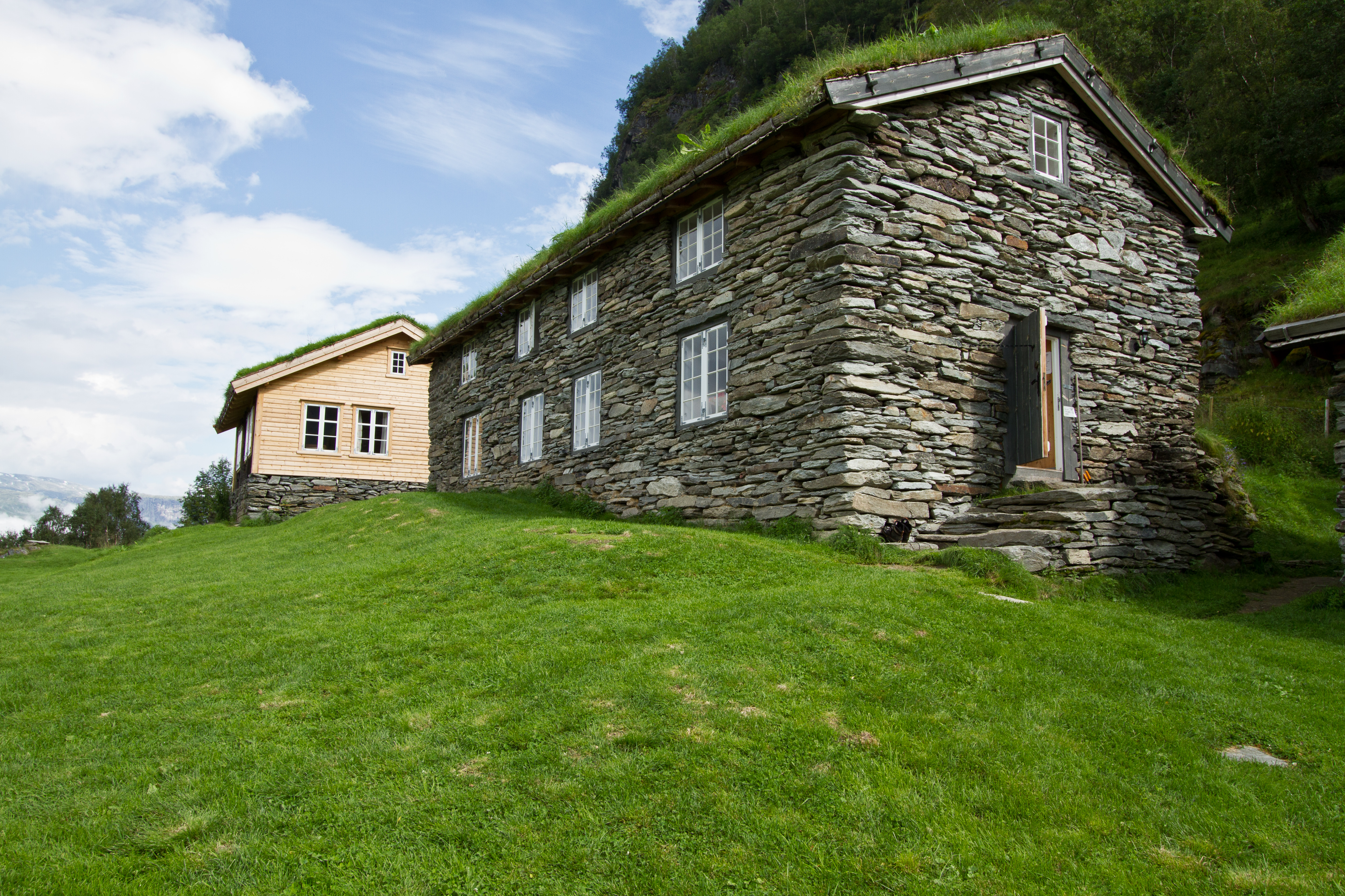 Picture of the houses on Fuglesteg